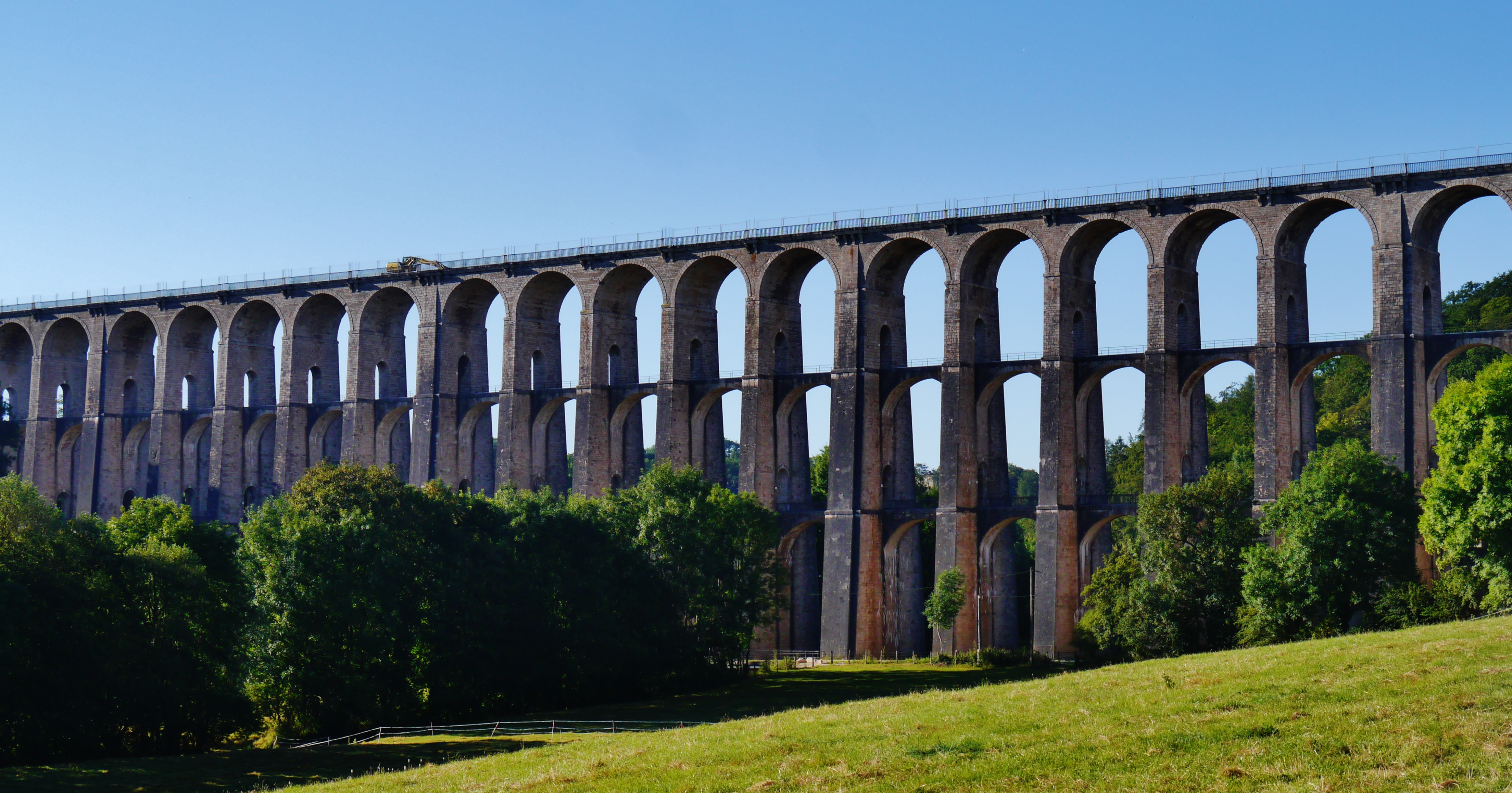 Viaduct, Chaumont, Département of Haute-Marne, Region of Champagne-Ardenne (now Grand East), France